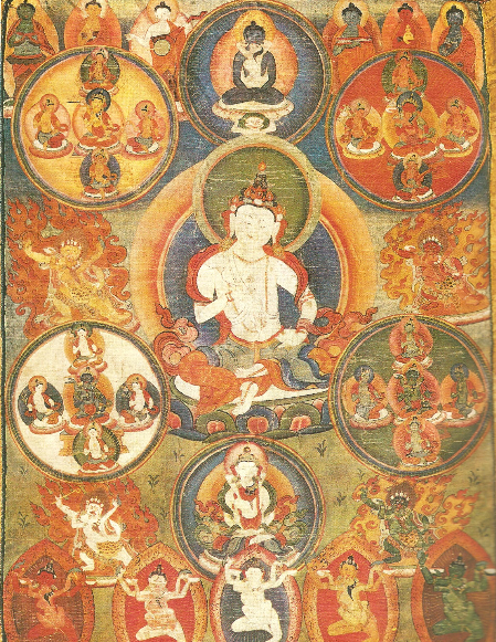 Tanka representing the Adi-Buddha Vajrasattva. Samantabhadra & Samantabhadri, also considered Adi-Buddha, are above.